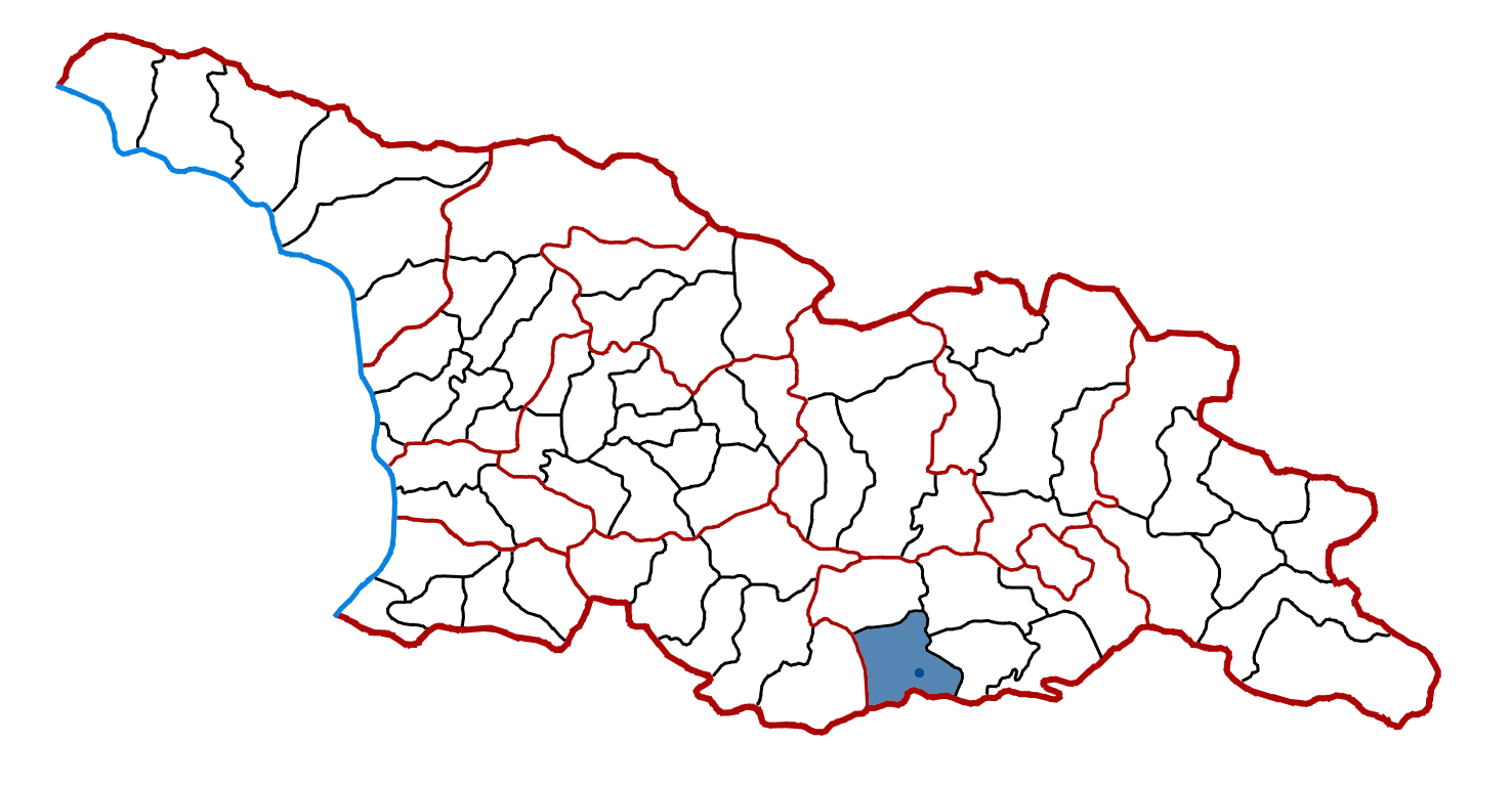 Location of Dmanisi district in Georgia